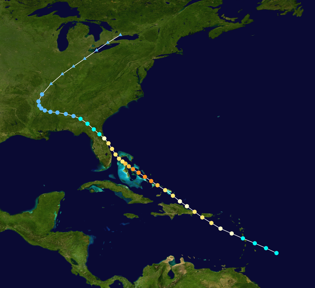 Track map of the 1926 Nassau hurricane of the 1926 Atlantic hurricane season. The points show the location of the storm at 6-hour intervals. The colour represents the storm's maximum sustained wind speeds as classified in the Saffir-Simpson Hurricane Scale (see below), and the shape of the data points represent the nature of the storm, according to the legend below. Saffir–Simpson scale Tropical depression≤38 mph≤62 km/h Category 3111–129 mph178–208 km/h Tropical storm39–73 mph63–118 km/h Category 4130–156 mph209–251 km/h Category 174–95 mph119–153 km/h Category 5≥157 mph≥252 km/h Category 296–110 mph154–177 km/h Unknown Storm type Tropical cyclone Subtropical cyclone Extratropical cyclone / Remnant low / Tropical disturbance / Monsoon depression